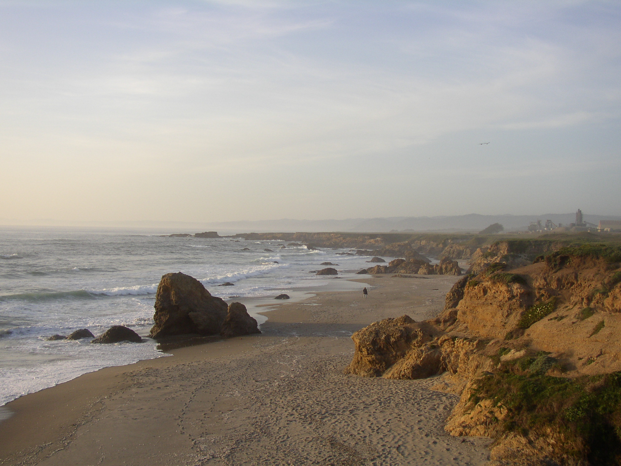 West coast, somewhere, USA from de.wikipedia [1] 16:09, 13. Dez 2005 . . Mbreckwoldt (Diskussion) . . 1984 x 1488 (726335 Byte)